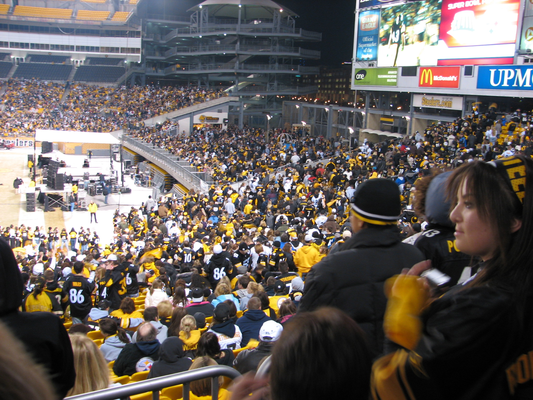 At a Pittsburgh Steelers pep rally at Heinz Field on Friday, January 23rd, before Super Bowl XLIII. Over 30,000 people attended.